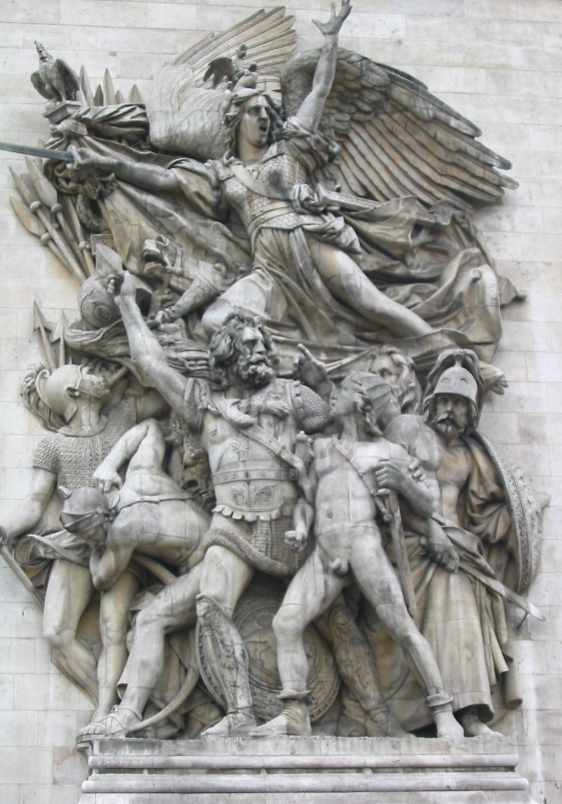 Paris Arc De Triomphe left bas-relief Photo taken by wikipedian Pufacz at October 2005